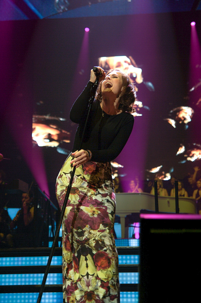 Alison Moyet at the Night of the Proms in Hannover 2011